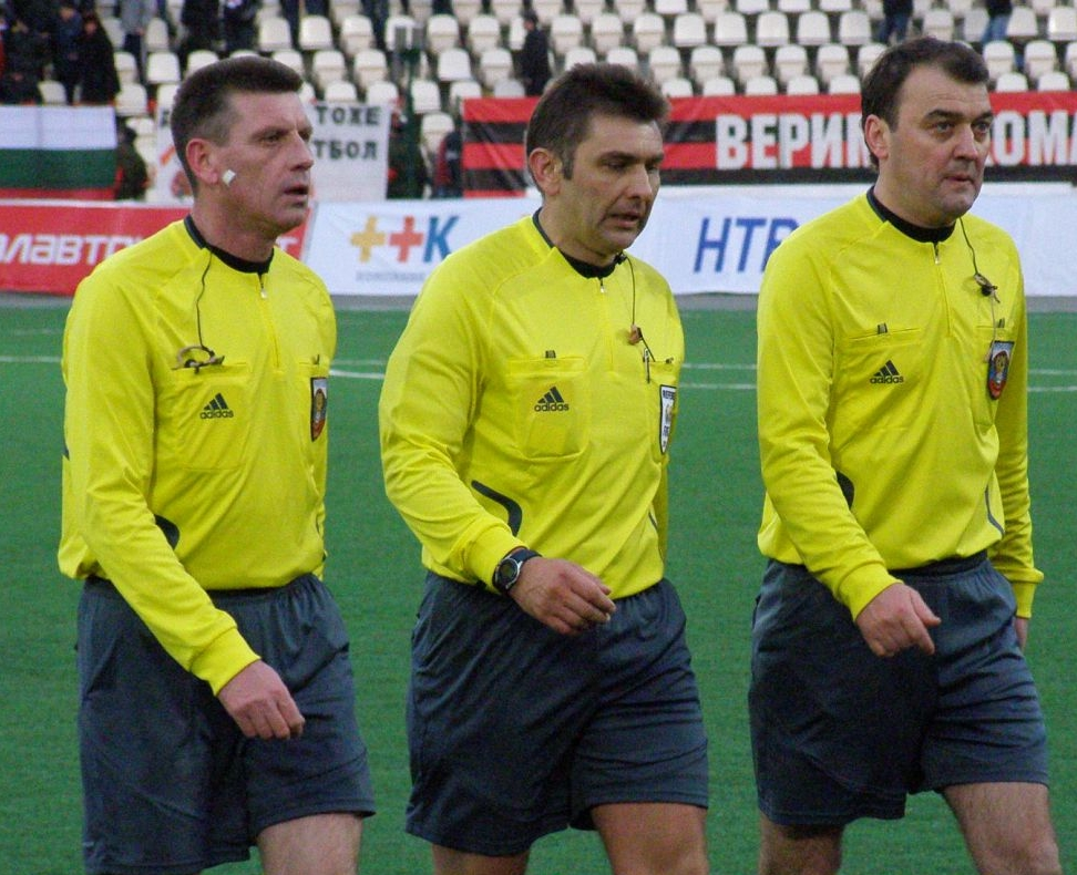 Alexandr Gvardis (in center), V. Bulygin & I. Zaripov in match between FC Amkar and PFC CSKA Moscow